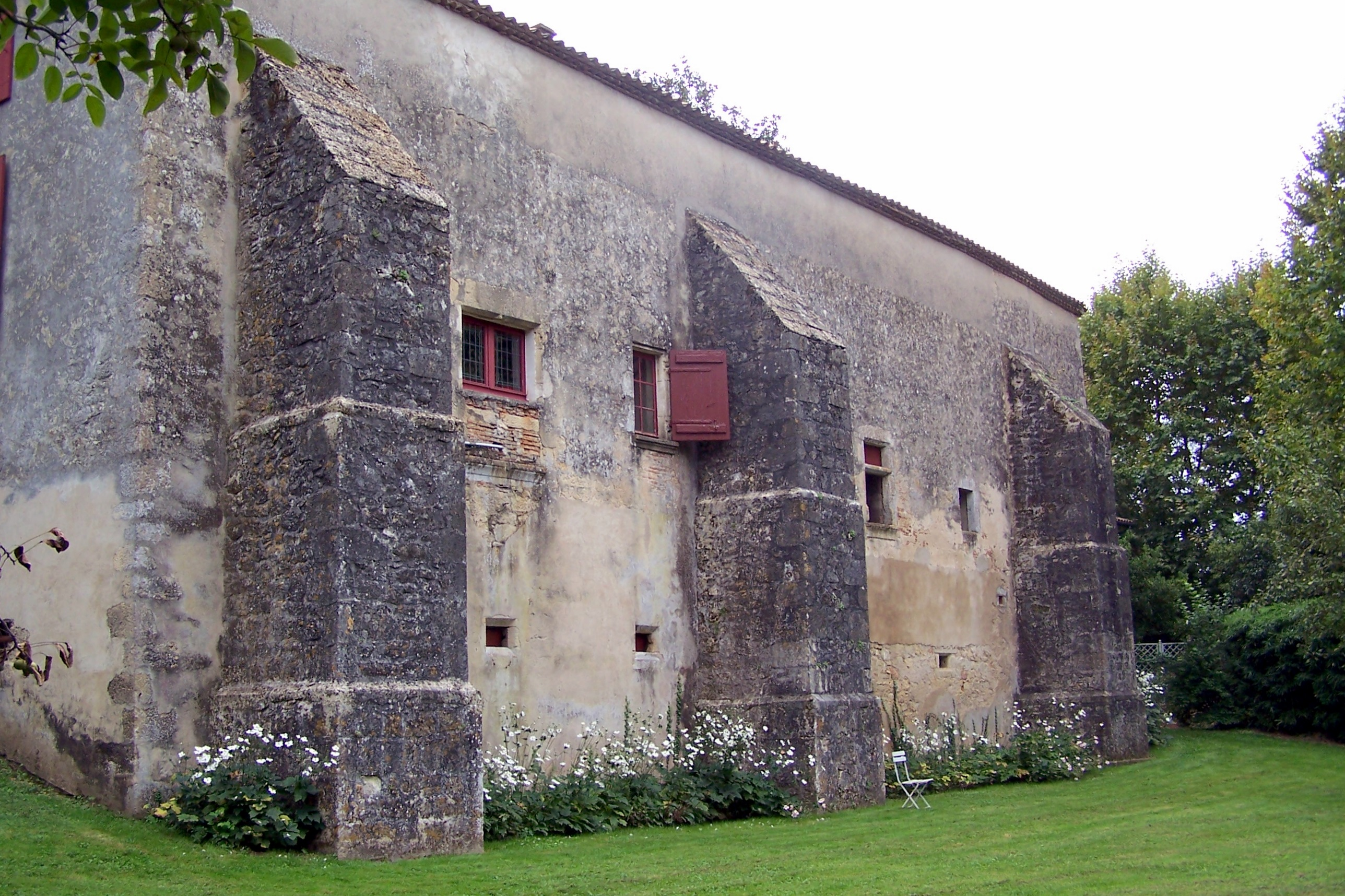 House with buttresses in Pondaurat (Gironde, France)